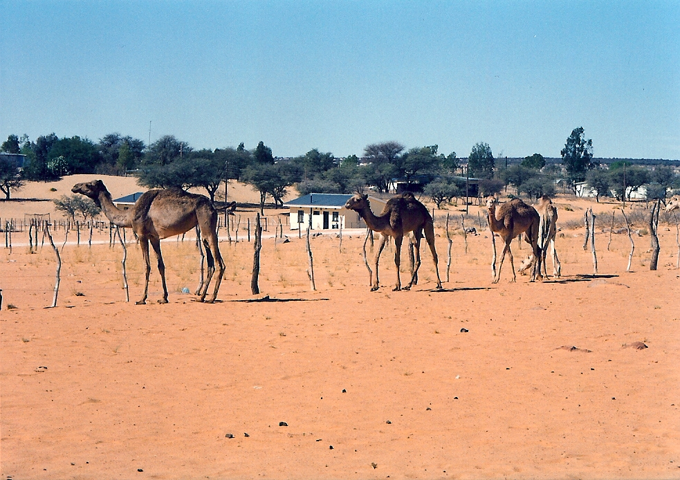 Domesticated camels grazing in Tshabong, Botswana. The town is the administrative centre of Kgalagadi District, in the Kalahari Desert, and the camels are used for transport, particularly by the police. Taken in mid-1995 on film.